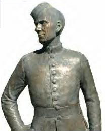 Brucie, Cadet, Sculpture, Royal Military College of Canada